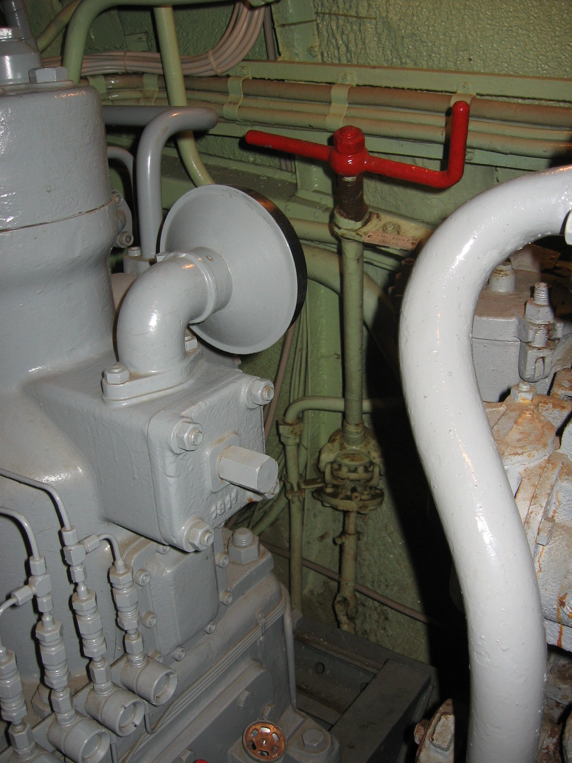 Flooding valve control handle (red, next to lube oil pump); Wilhelm Bauer museum U-boat